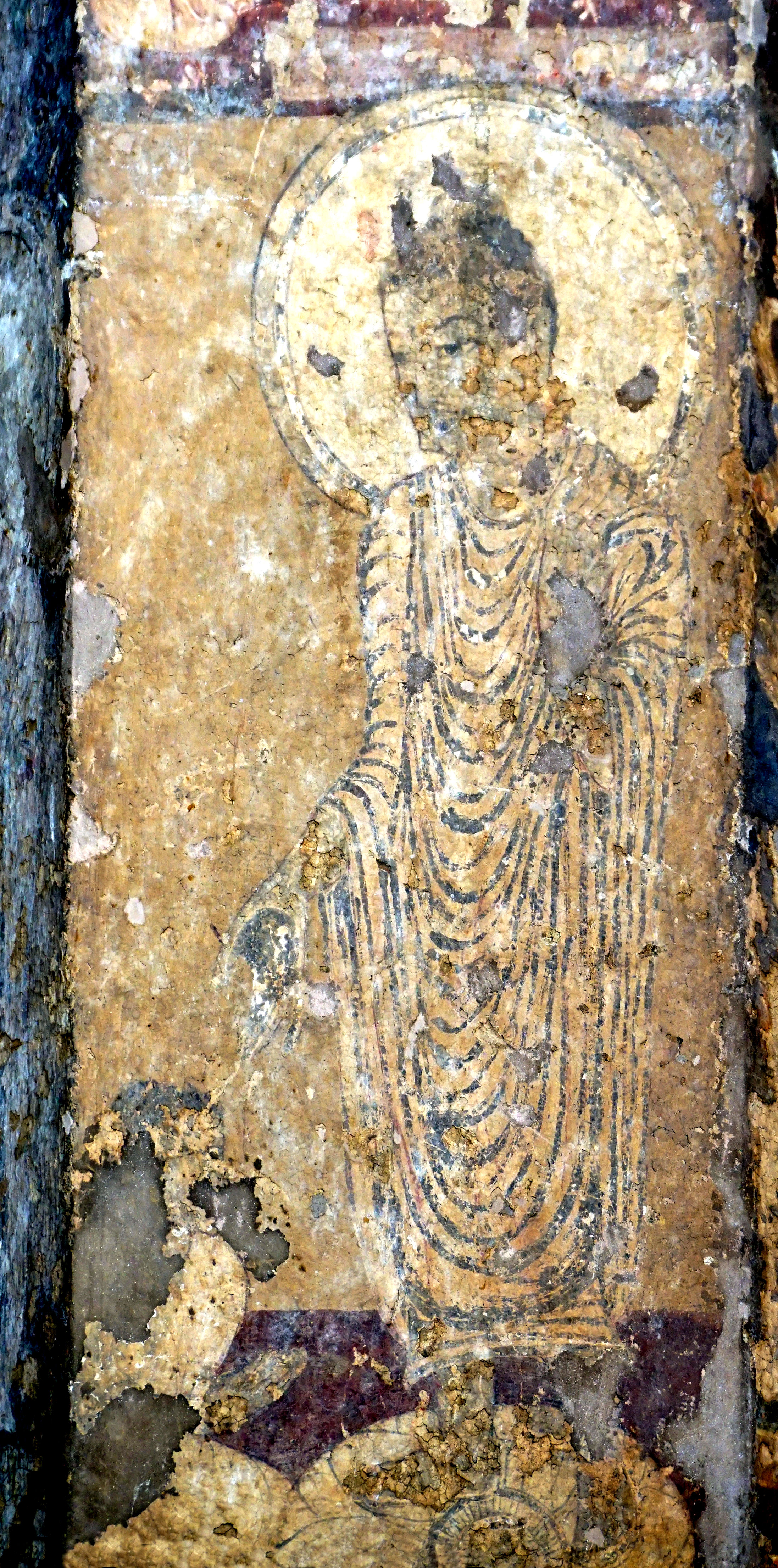 089 Cave 10, Buddha Drawing on Column (33896473480) detail